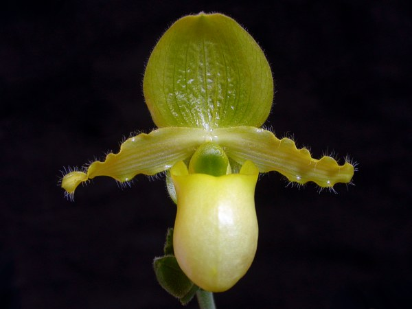 Paphiopedilum